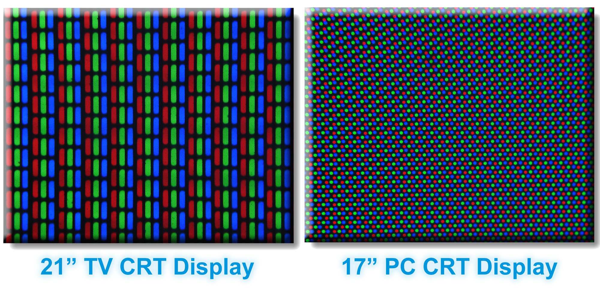 Pixel arrays in a TV and a PC CRT display shown at same magnification.